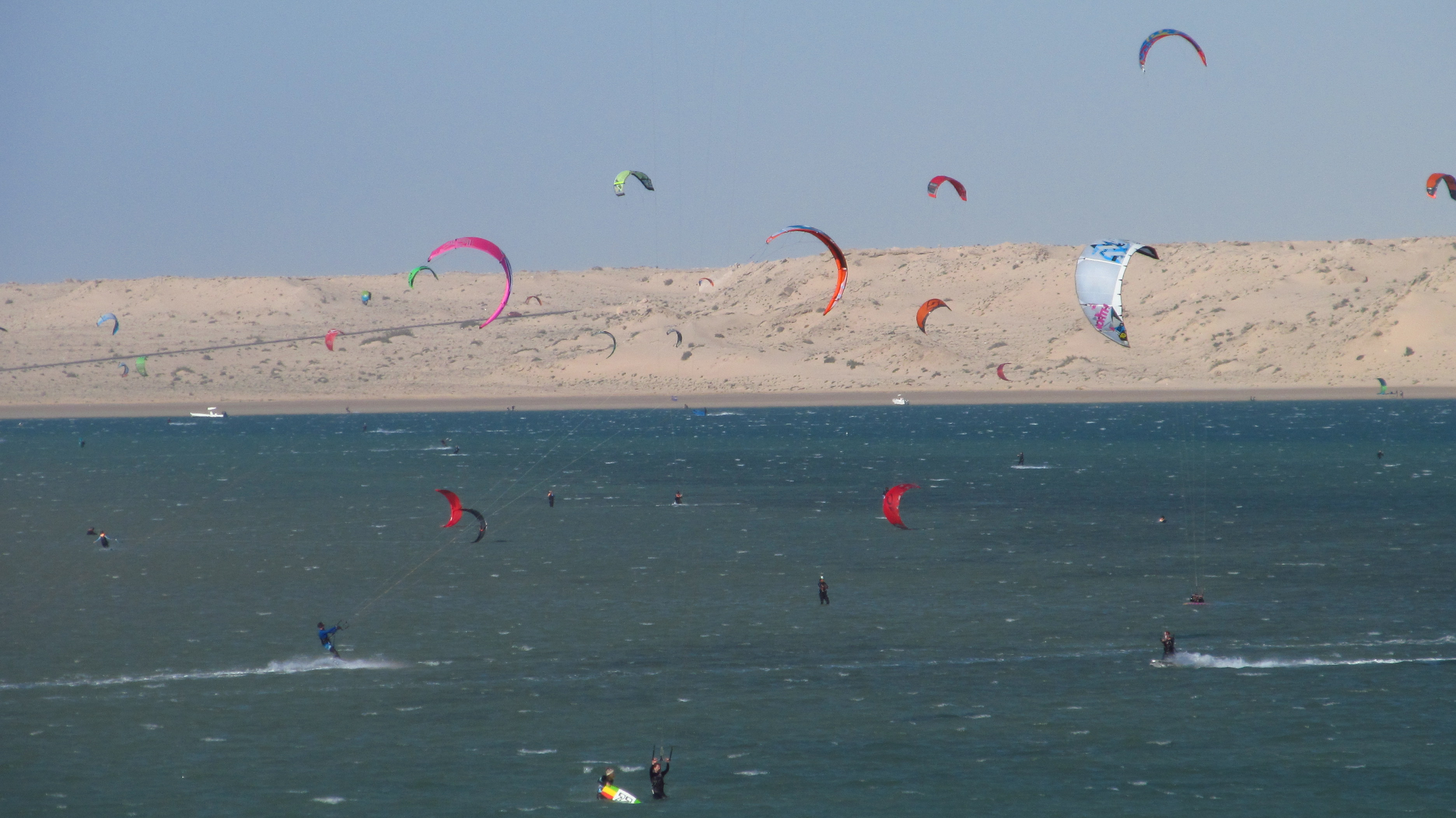 Kitesurfing in Dakhla, where many Kitesurfers from Europe spend the winter months.